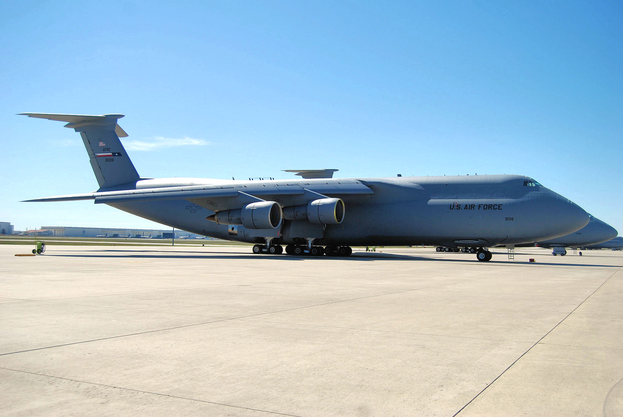 The C-5 Galaxy is the largest aircraft in the Air Force inventory. The Alamo Wing operates and maintains 16 of the giants at Lackland Air Force Base. In addition to flying missions in support of global requirements, the 433rd Airlift Wing is also home to the C-5 Formal Training unit and trains the future air crews for active duty, Air National Guard and the Air Force Reserve. (U.S. Air Force Photo/Senior Airman Viola Hernandez)